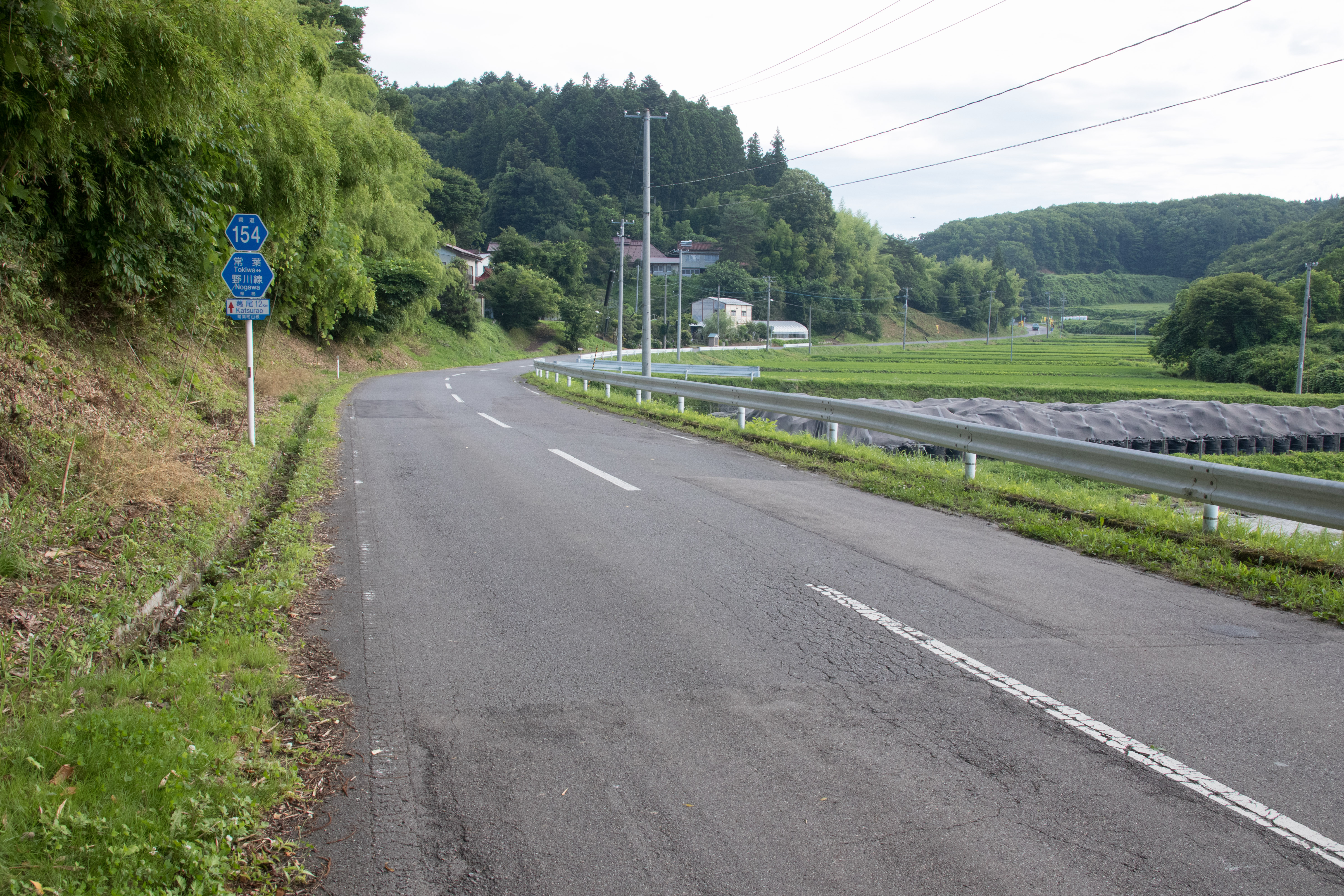 Fukushima Prefectural Route154, Tamura City, Fukushima Pref., Japan